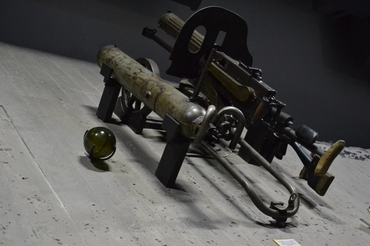 Soviet 125-mm "ampulomiet"(russian:ампуломёт)-type flamethrower(left) and it's capsule for the napalm (leftmost). The Maxim gun on the background. Photographed in the Battle of Stalingrad Museum in Volgograd.